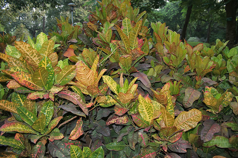 Croton Codiaeum variegatum in Hyderabad , India.